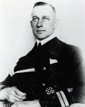 Commander at the airship base in Tønder